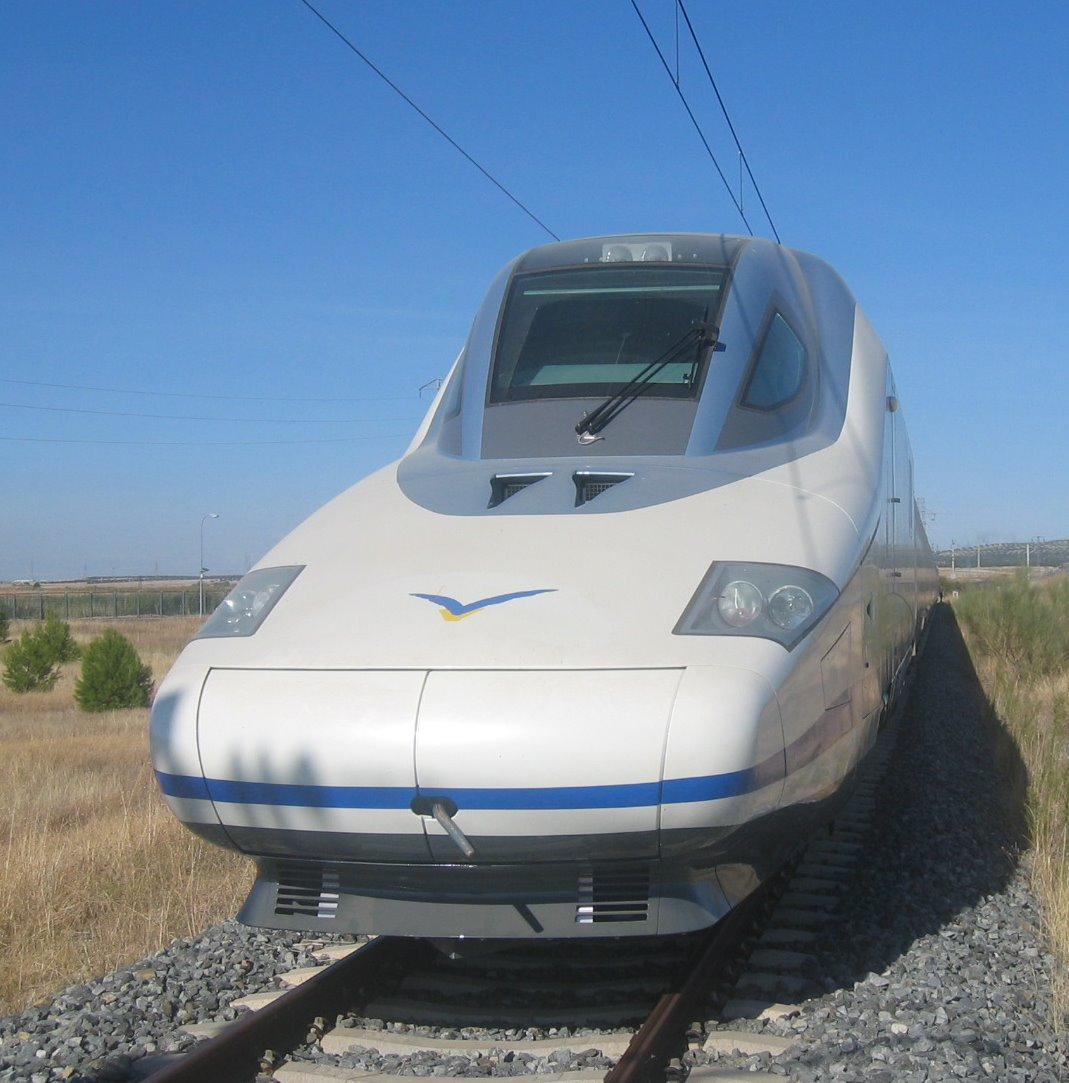 AVE S-102 in maintenance plant La Sagra